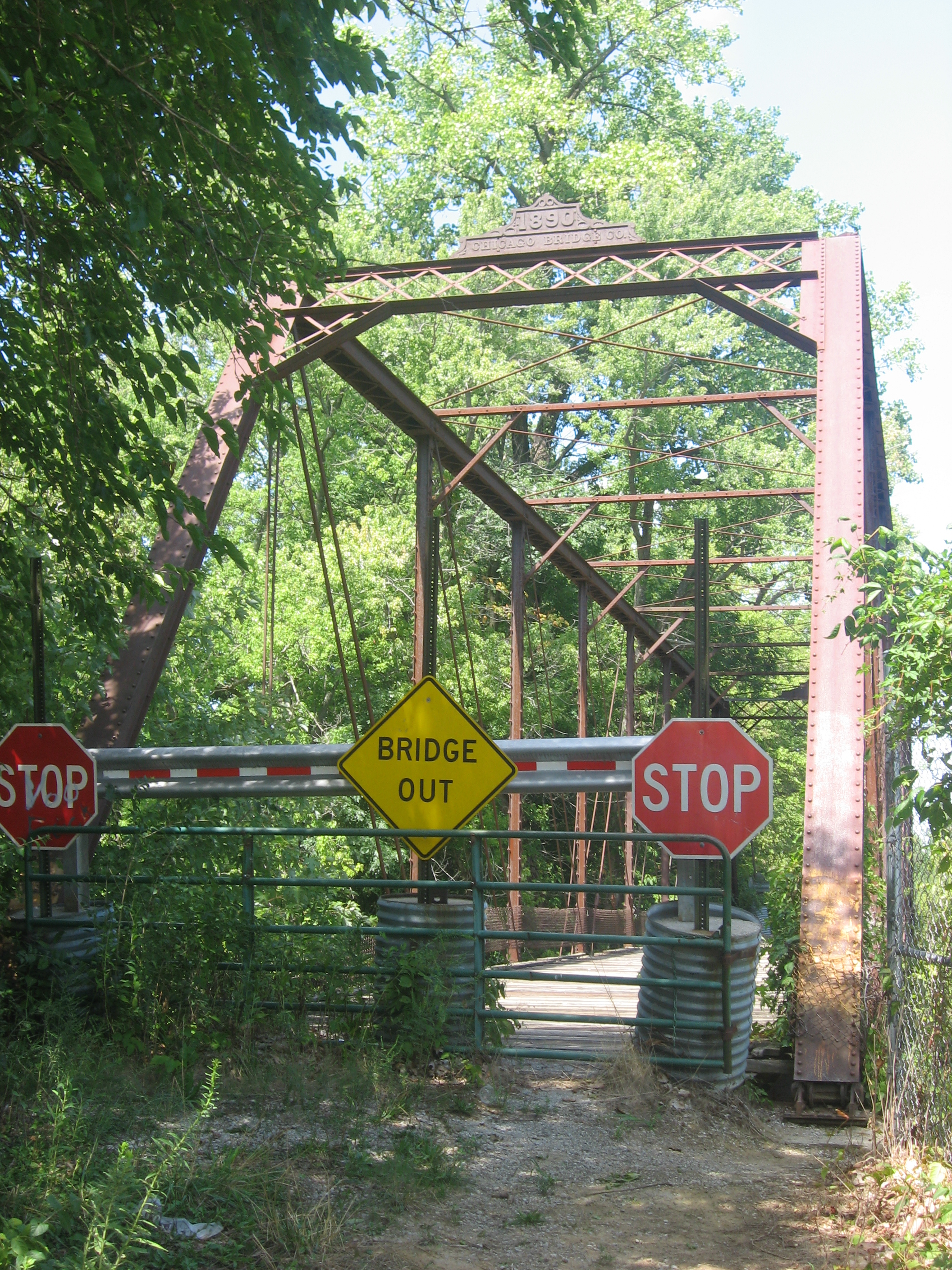 Southern portal of the Embarras River Bridge, which spans the lower Embarras River at Newton, Illinois, United States. Built in 1890, it is listed on the National Register of Historic Places.